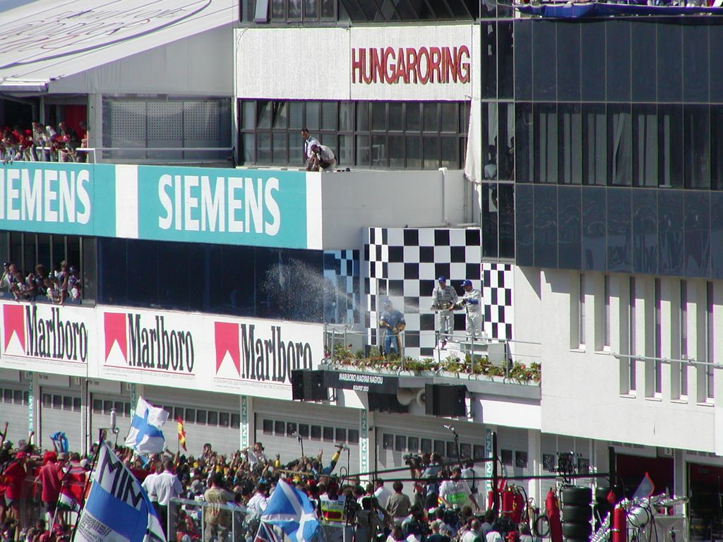 Podium celebration at the 2003 Hungarian Grand Prix.